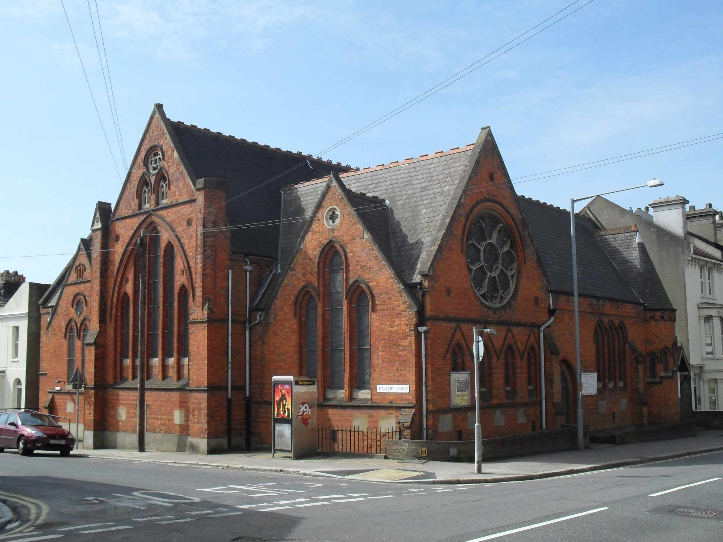 Calvert Memorial Methodist Church, Mount Pleasant Road, Halton, Hastings, East Sussex, England. Built in 1892.